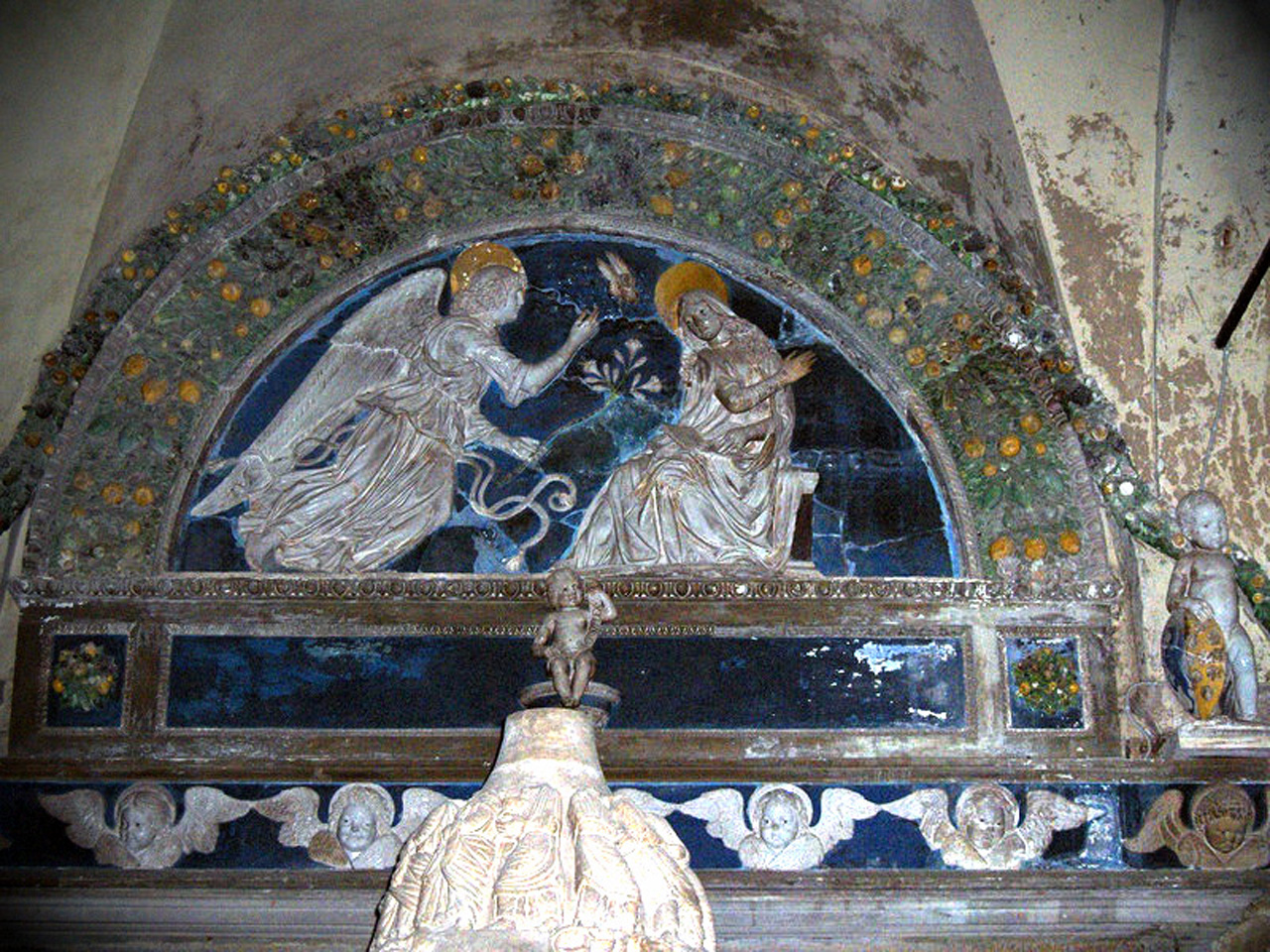 'Annunciation' by M. della Robbia; Basilica of San Frediano; Lucca, Italy Own photo - photo made by Georges Jansoone on 10 October 2005